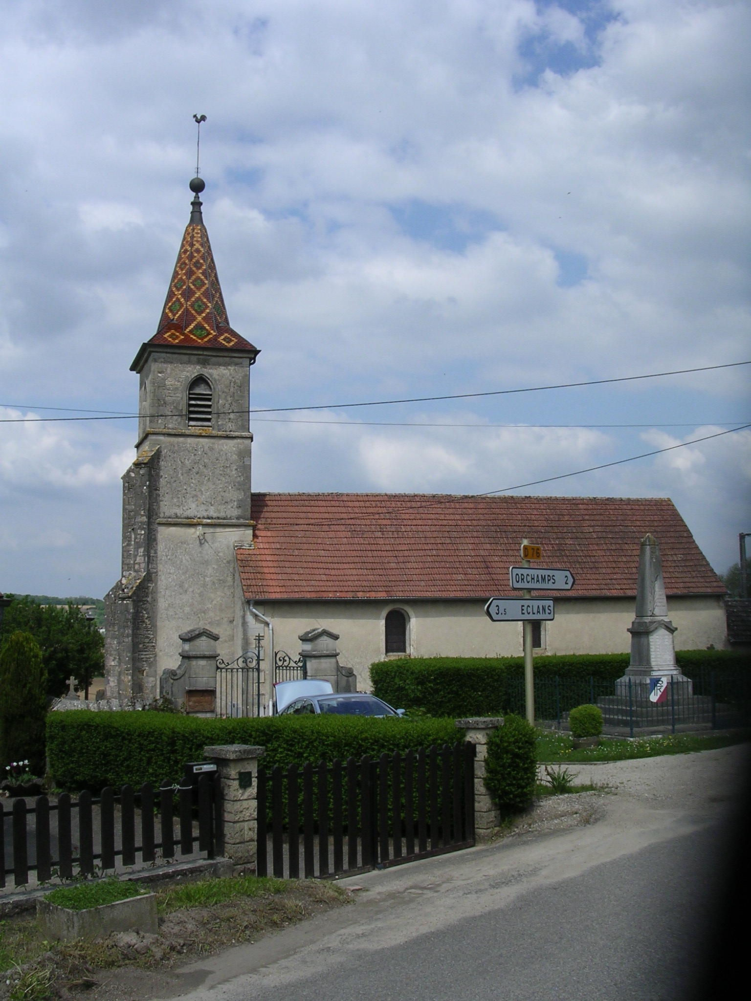 Our (Jura), Franche-Comté, FRANCEOur (Jura). L'église